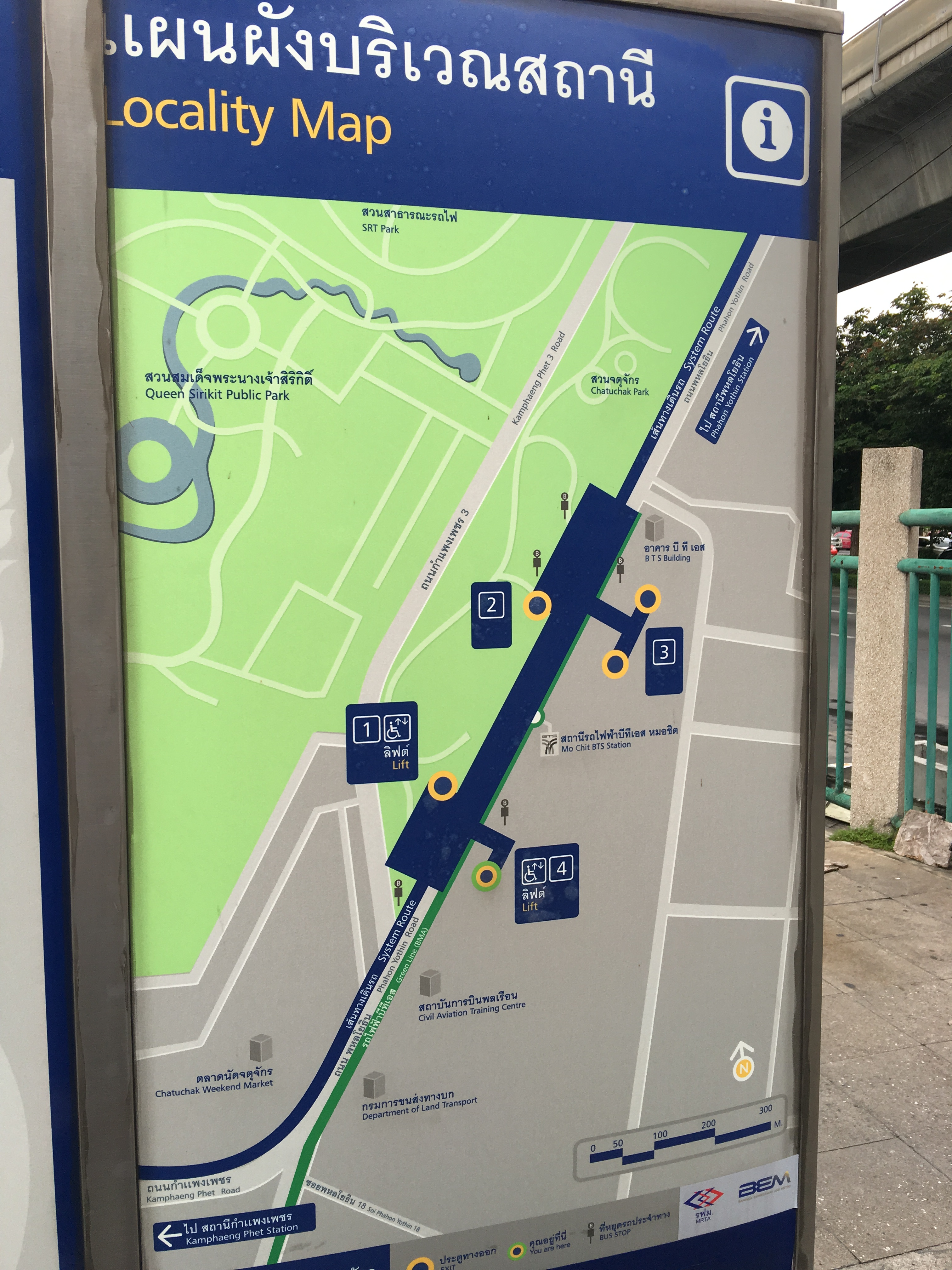 The locality map of Chatuchak Park Station